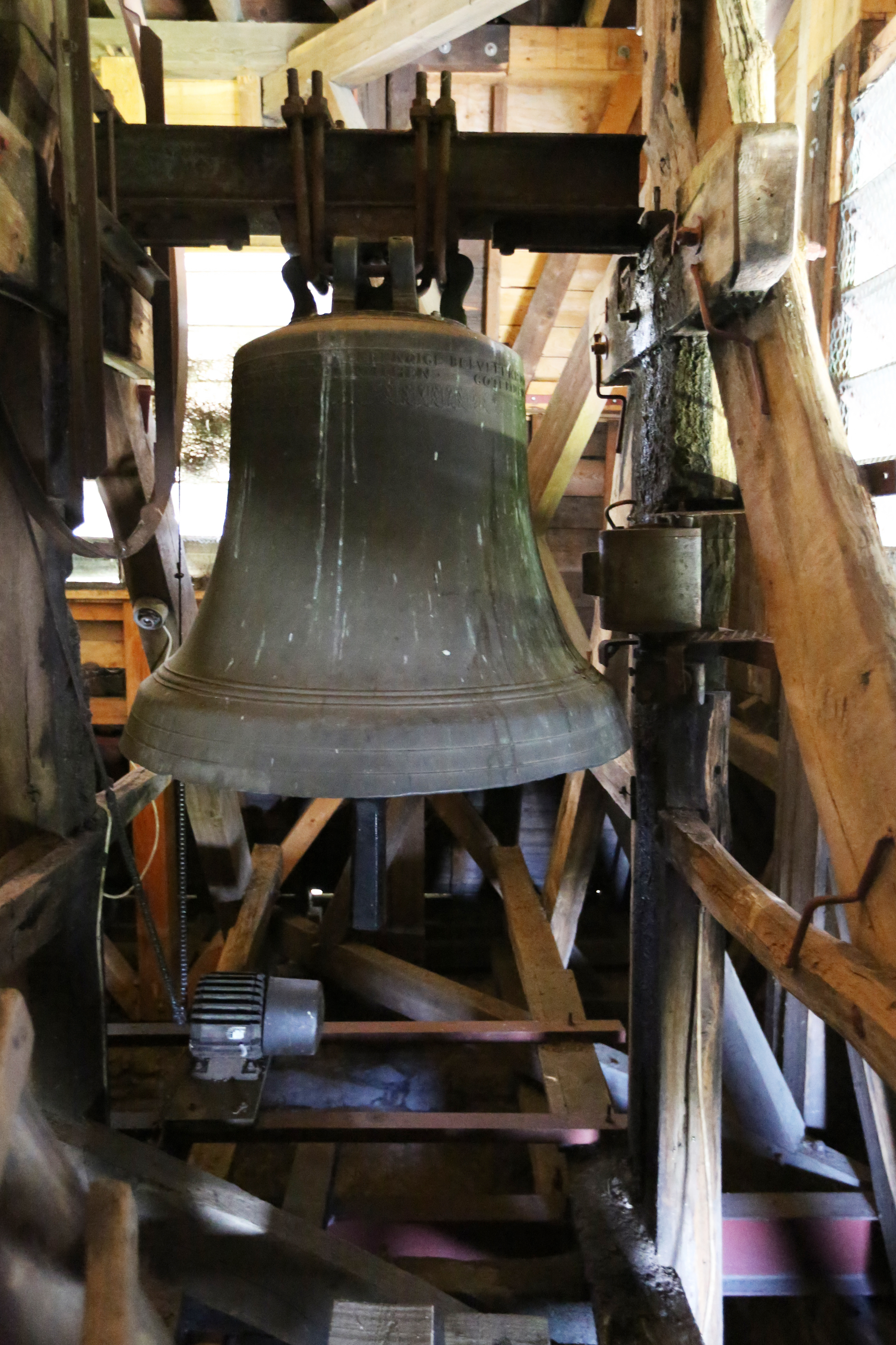 Inside the medieval church. Belfry of St. Viktor, Hochkirchen, a quarter of Nörvenich, Germany